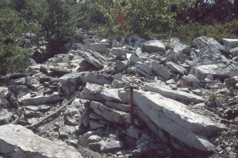 Outcrop of Tuscarora Formation in Thickhead Mountain Wild Area, Rothrock State Forest, Centre County, Pennsylvania. Rock hammer for scale.